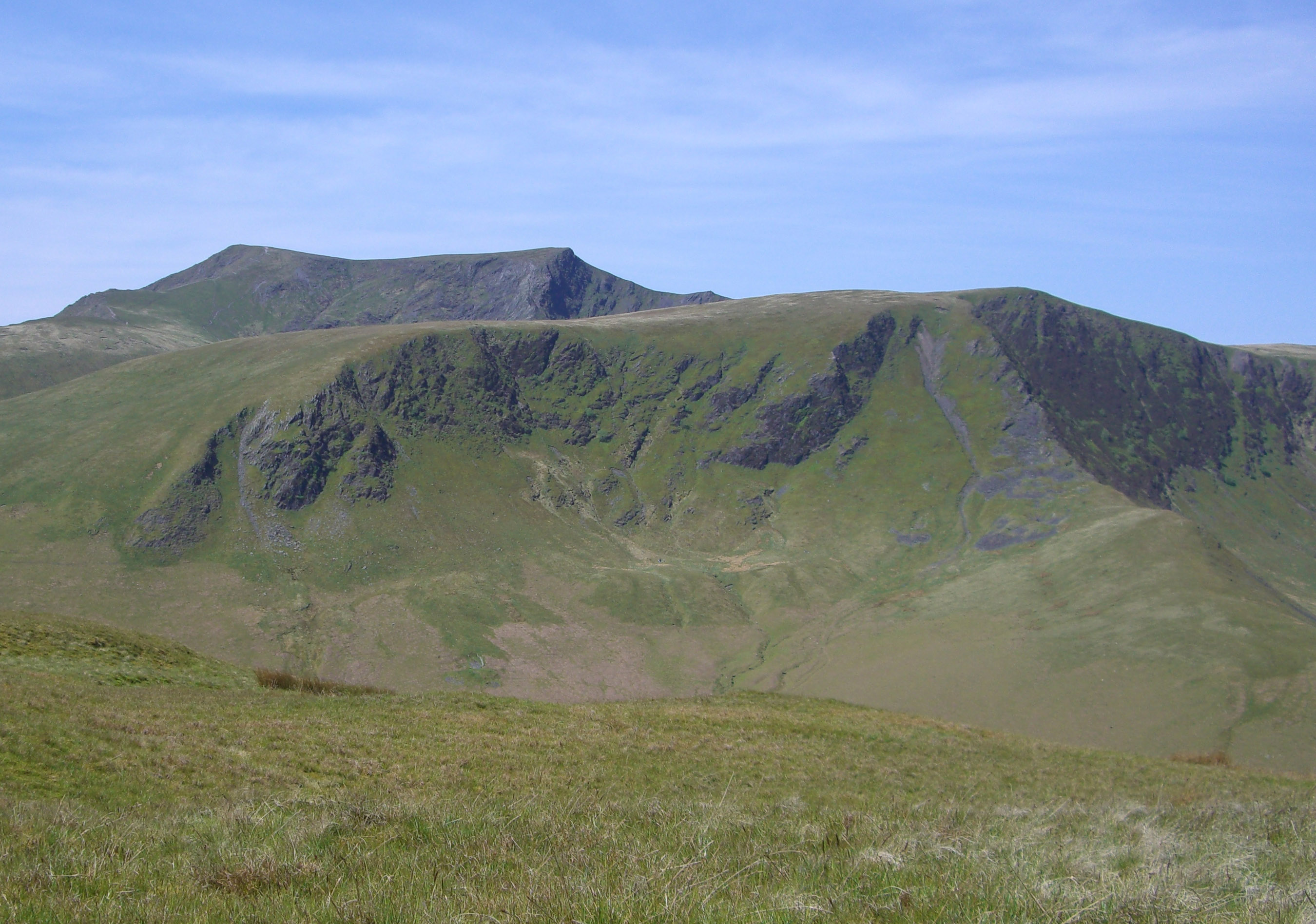 Looking west from the summit of Souther Fell takes in Blencathra and Bannerdale Crags.